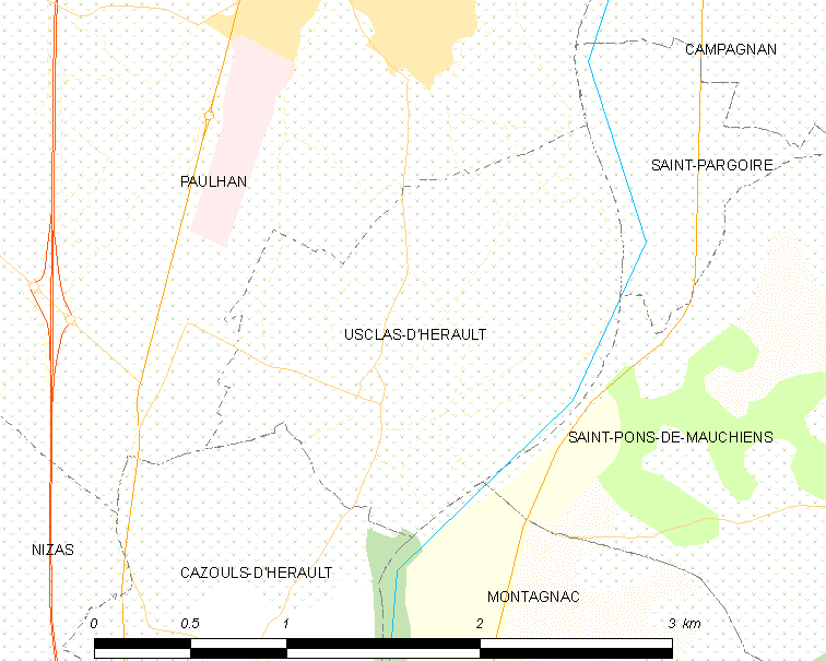 Map commune FR insee code 34315.png - Usclas-d'Hérault